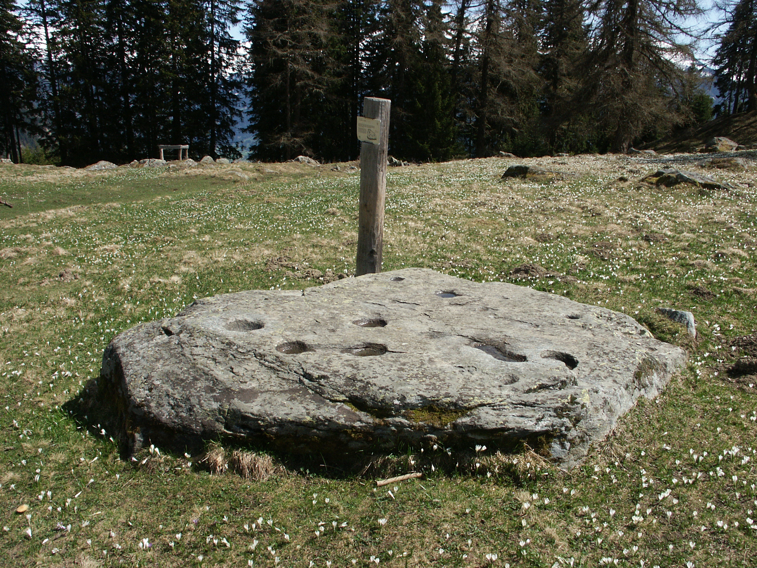 A cup-and-ring marked stone at the Col du Lein, Valais, Switzerland.